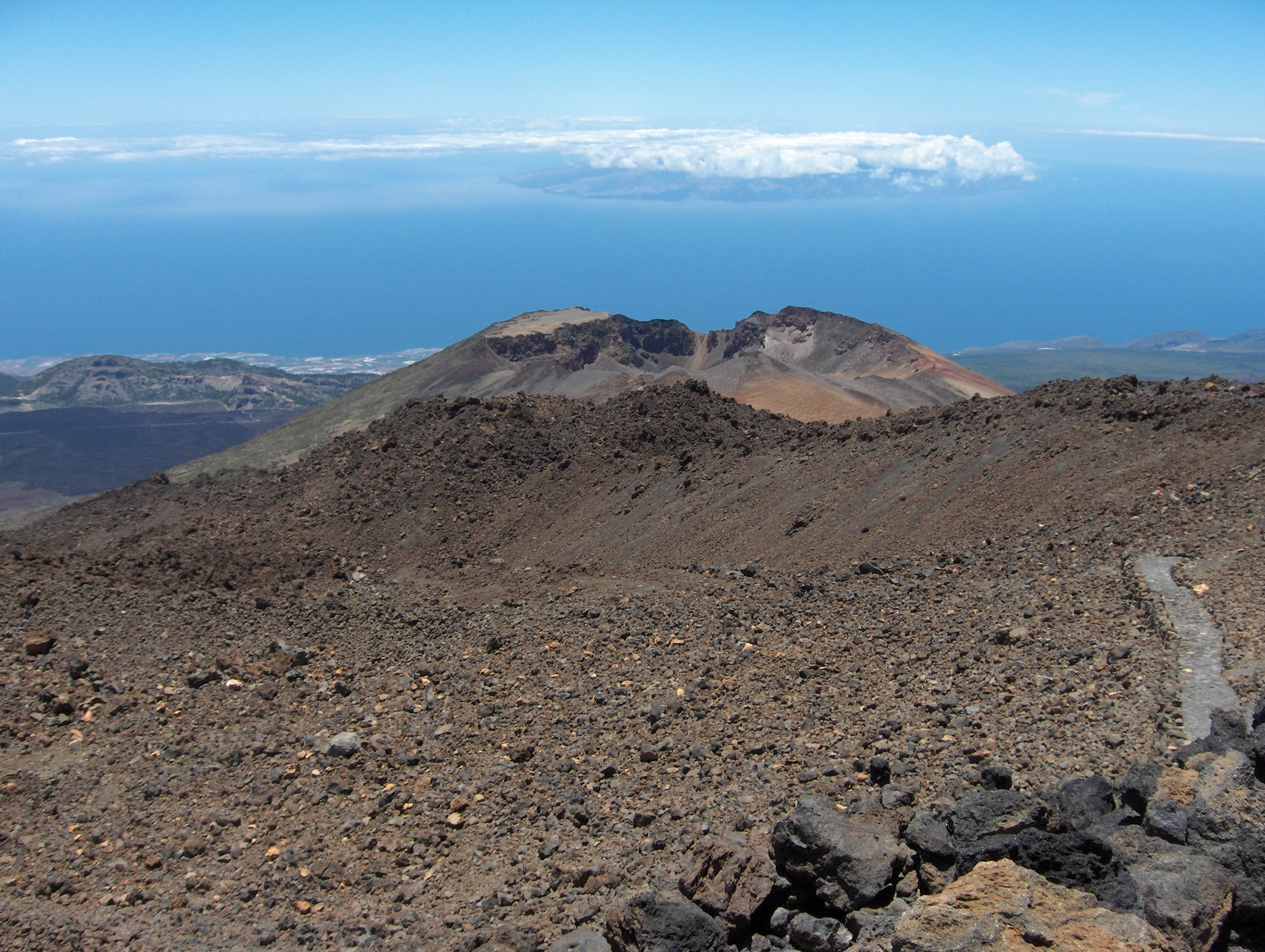 Old crater of the Teide, before the last 300m were erupting through todays highest crater.In the background you can see the island of La Gomera.